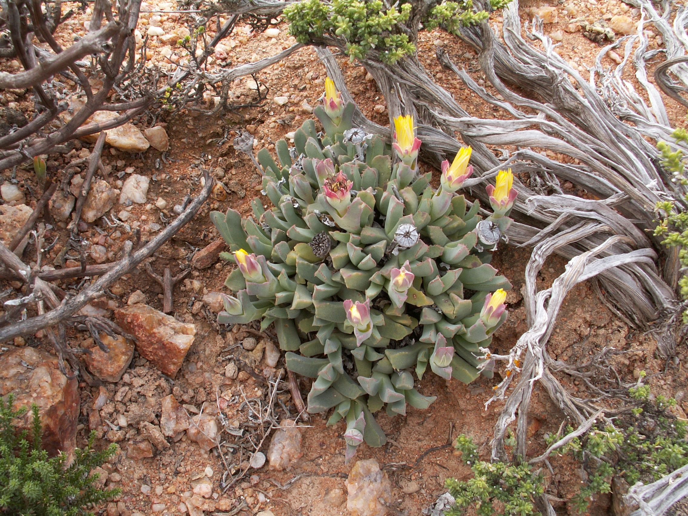 Odontophorus angustifolius L.Bolus , Richtersveld National Park, Richtersveld Local Municipality, Namakwa District Municipality, Northern Cape, South Africa